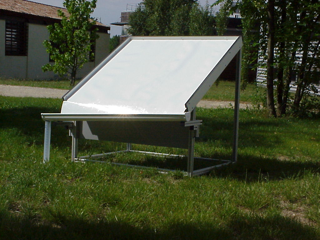 Dew condenser